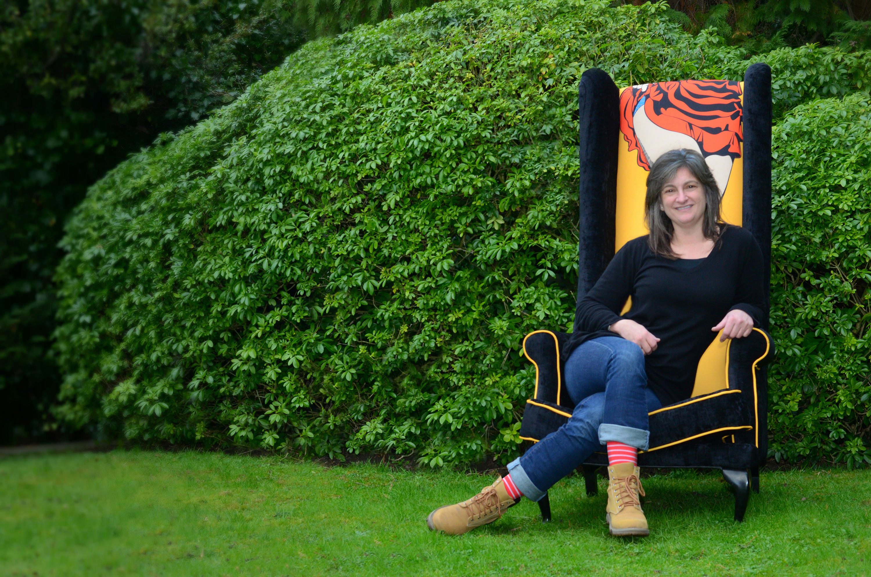 Deborah Azzopardi in her London studio garden, February 2014